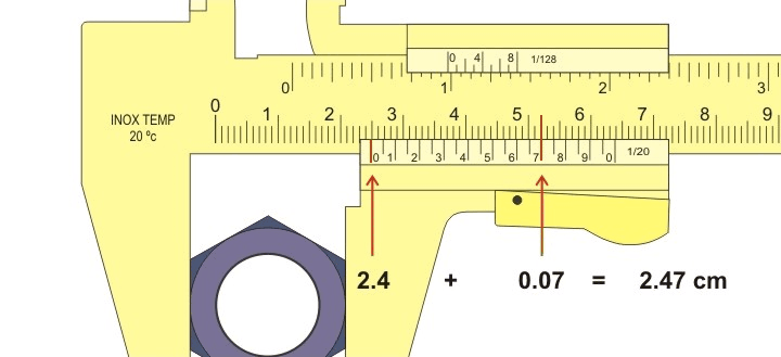 Single frame of Image:Using the caliper new en.gif for thumbnail purposes.